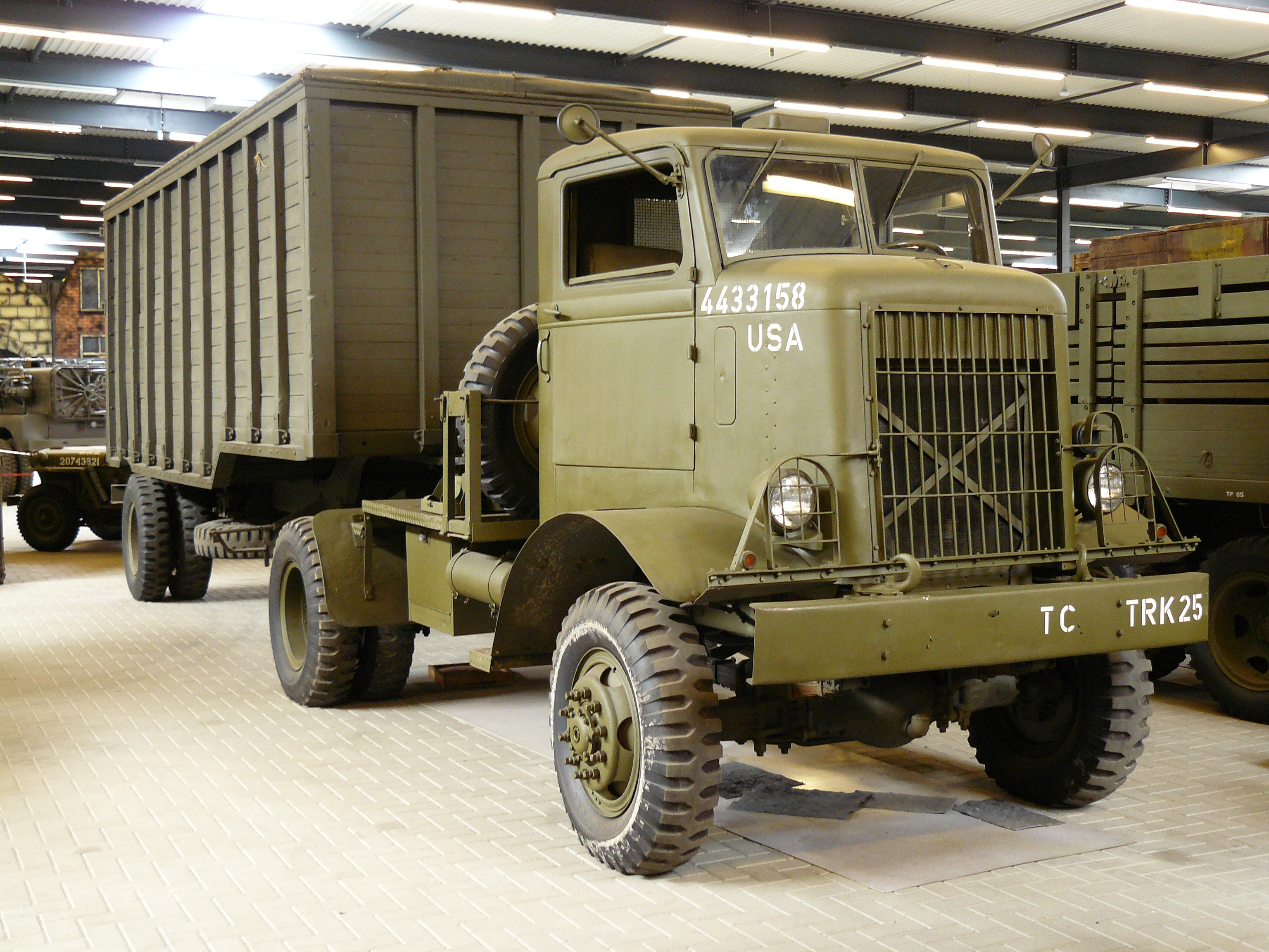 Autocar tractor as seen in Marshall Museum, Overloon, Netherlands